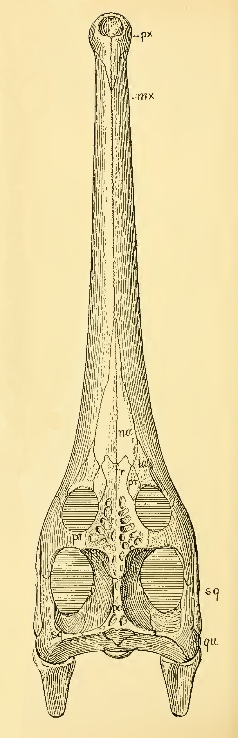 An illustration from The Osteology of the Reptiles